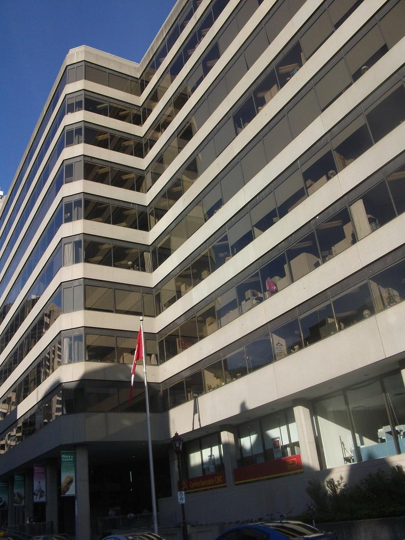 Place du Centre, the headquarters of the Transportation Safety Board of Canada - 200 Promenade du Portage Place du Centre 4th Floor Gatineau, Quebec K1A 1K8